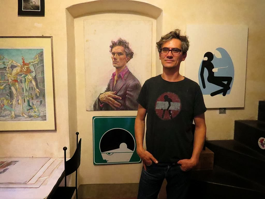 Portrait of Clet Abraham in his studio in Florence